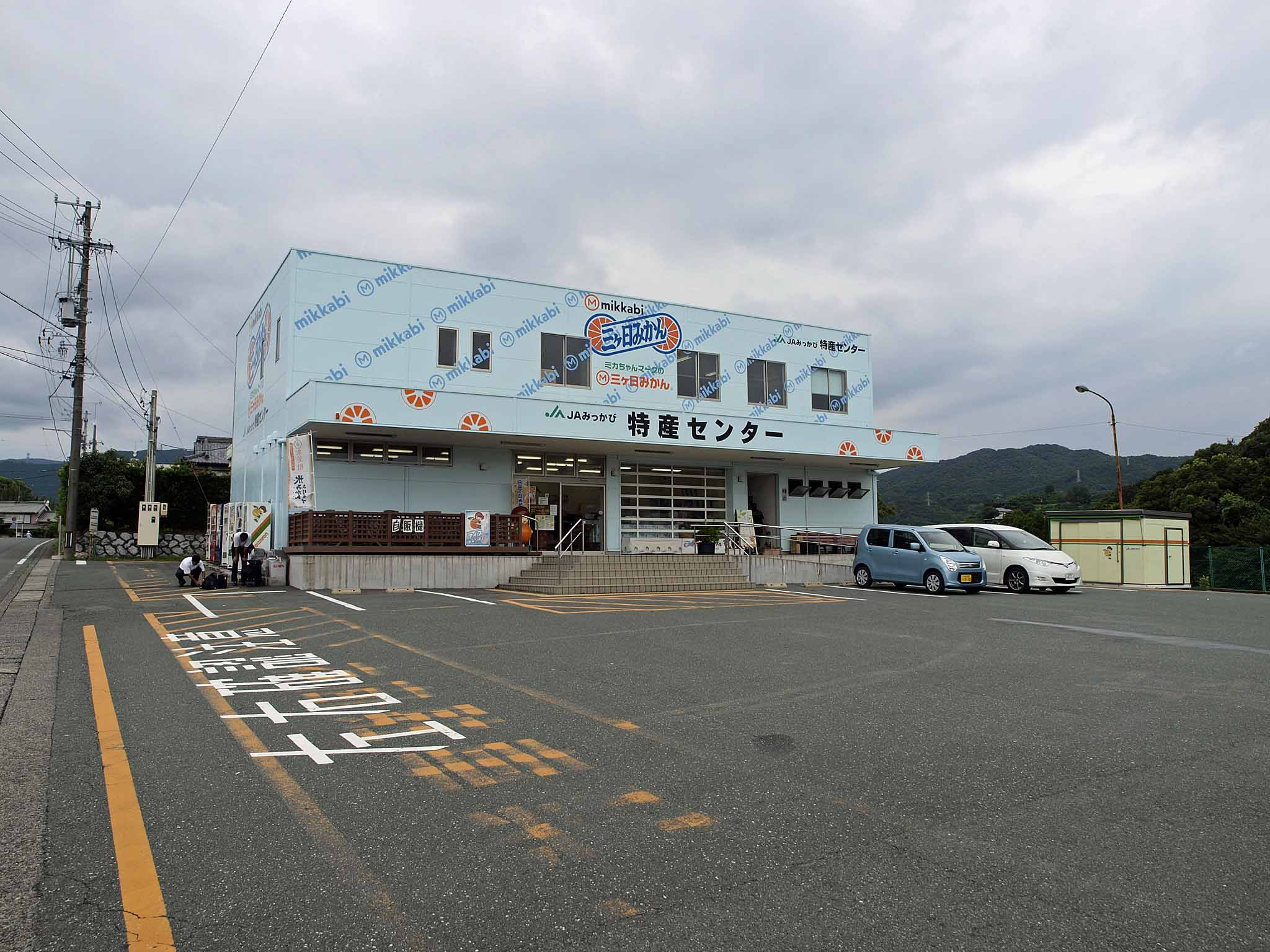 JA Mikkabi "Tokusan Center", and JR Bus Kanto Mikkabi Dept, located at neighbor of Tomei Expressway Mikkabi Interchange.